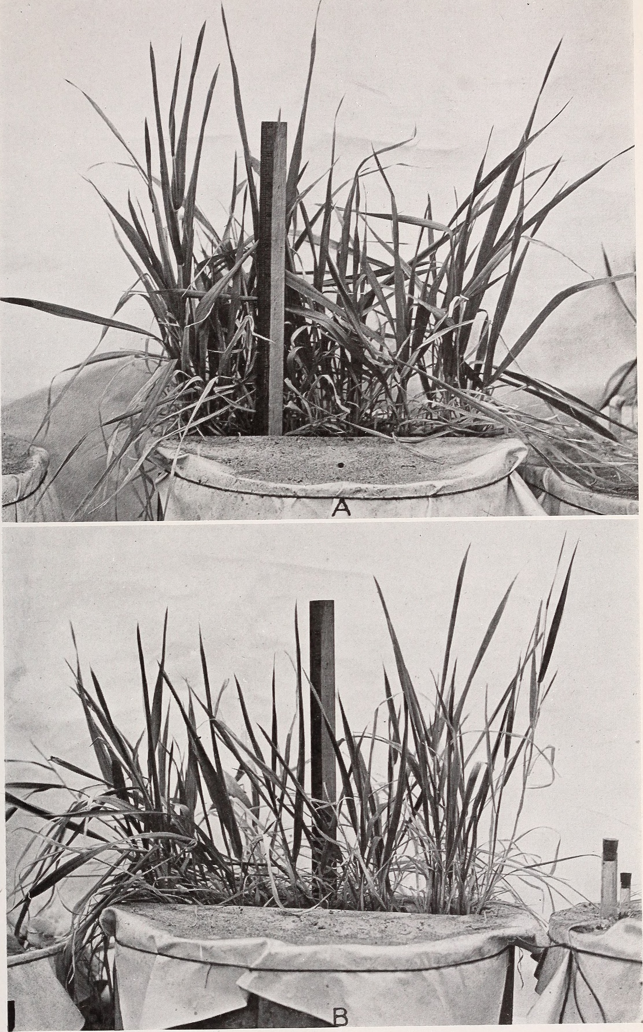 Title: Development and activities of roots of crop plants; a study in crop ecology Year: 1922 (1920s) Authors: Weaver, John E. (John Ernest), 1884-1966; Jean, Frank Covert, 1880- joint author; Crist, John W. , joint author Subjects: Roots (Botany); Plant ecology; Crops and climate Publisher: Washington, Carnegie Institution of Washington Text Appearing Before Image: PLATE 11 Text Appearing After Image: A. Development of crop on March 12 in fertilized soil. B. In unfertilized soil.